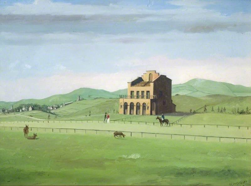 Kingsley, Harry; Fairfield Race Course, Derbyshire, 1825; Buxton Museum & Art Gallery